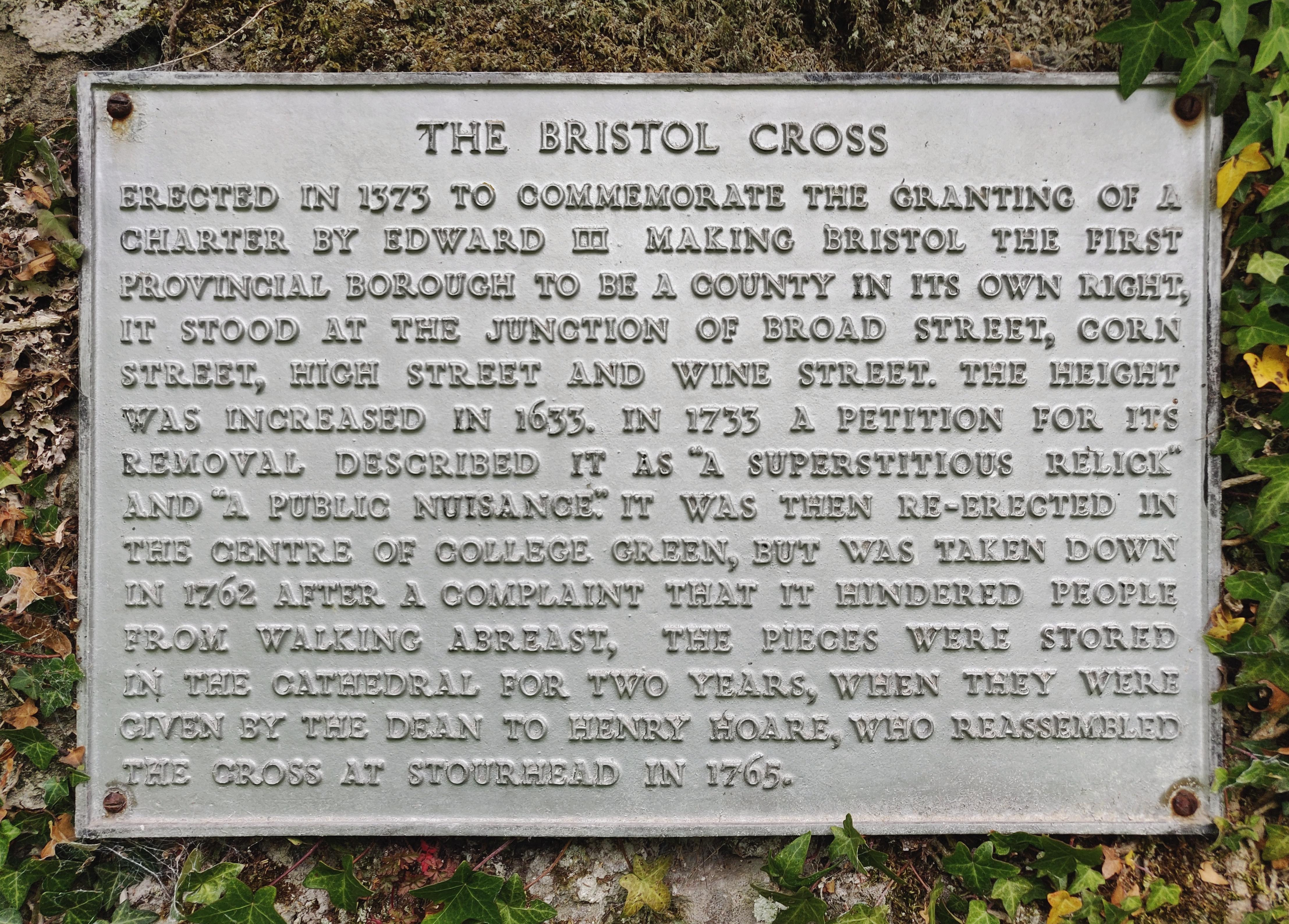 Plaque describing the history of the Bristol Cross. The plaque is on a wall behind the Bristol Cross' current location in the National Trust property of Stourhead in Wiltshire, UK.